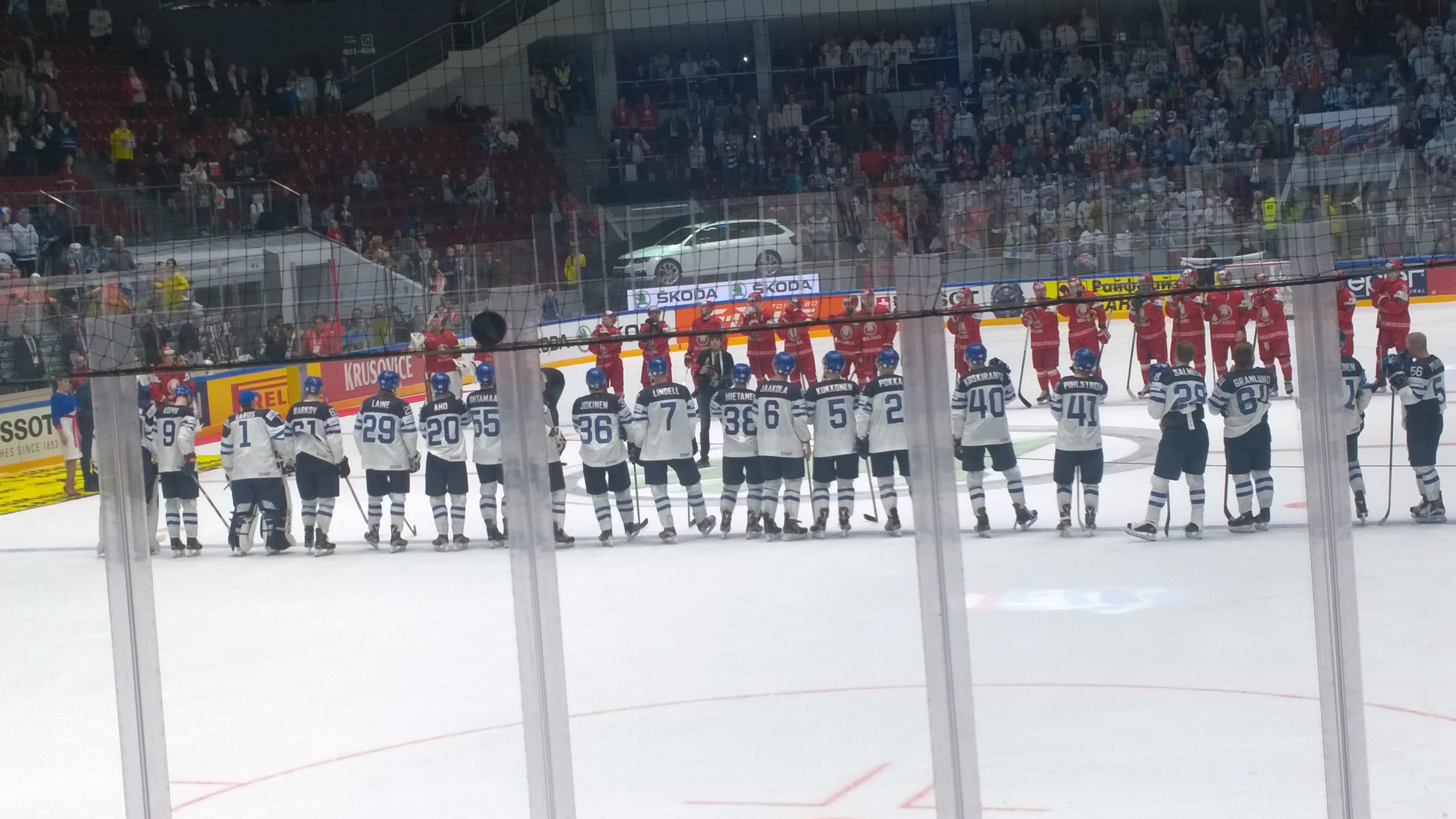 Finland - Belarus at the 2016 Ice Hockey World Championships in St. Petersburg, Russia. The arena is Yubileyny Sports Palace.